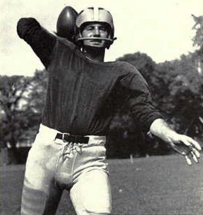 Photograph of Stan Noskin This work is in the public domain because it was published in the United States between 1923 and 1963 and although there may or may not have been a copyright notice, the copyright was not renewed. Unless its author has been dead for the required period, it is copyrighted in the countries or areas that do not apply the rule of the shorter term for US works, such as Canada (50 pma), Mainland China (50 pma, not Hong Kong or Macao), Germany (70 pma), Mexico (100 pma), Switzerland (70 pma), and other countries with individual treaties. See Commons:Hirtle chart for further explanation. This work is in the public domain in the United States because it was published in the United States between 1923 and 1977 without a copyright notice. See this page for further explanation. Note that it may still be copyrighted in jurisdictions that do not apply the rule of the shorter term for US works (depending on the date of the author's death), such as Canada (50 p.m.a.), Mainland China (50 p.m.a., not Hong Kong or Macao), Germany (70 p.m.a.), Mexico (100 p.m.a.), Switzerland (70 p.m.a.), and other countries with individual treaties.